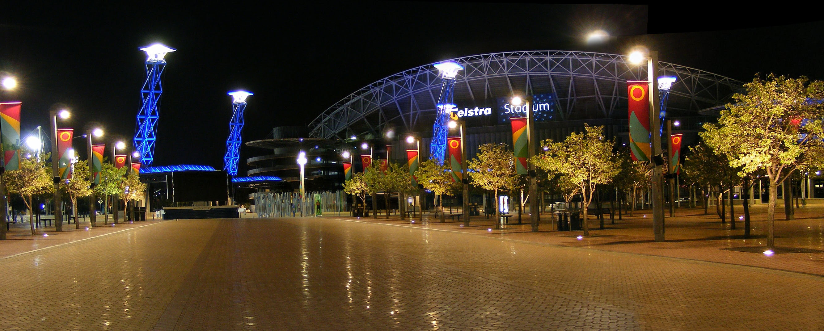 Sydney Olympic Park Australia